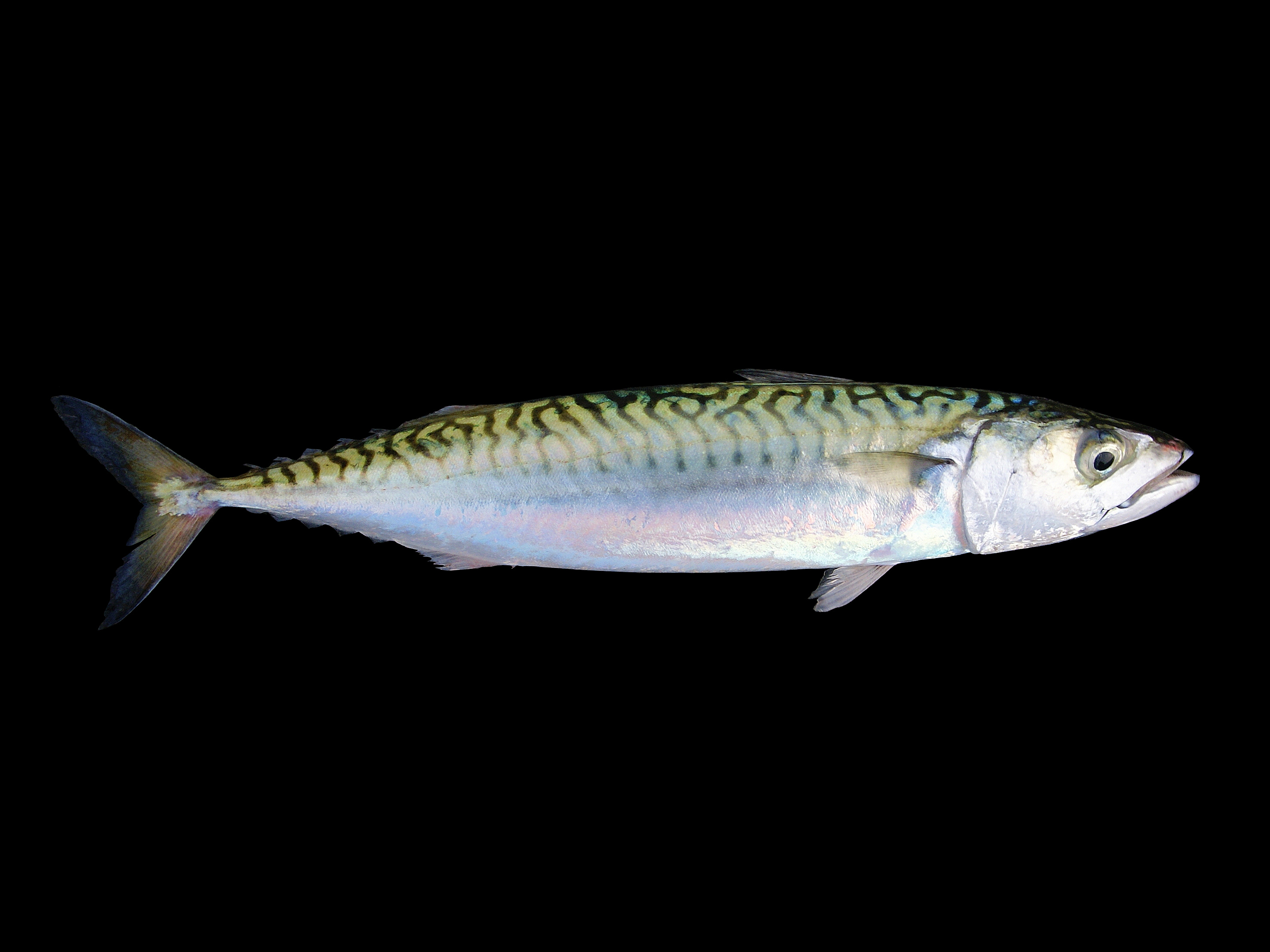 Mackerel, caught close to the western edge of the Belgian part of the North Sea, Belgium.